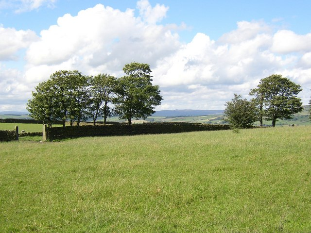 Field and view, Keighley Tarn, Keighley The tarn is in a slight fold in the hillside, and at 290m AOD the view passes over the hills above Silsden to Barden Fell. I think the little peak on the horizon must be Simon Seat.